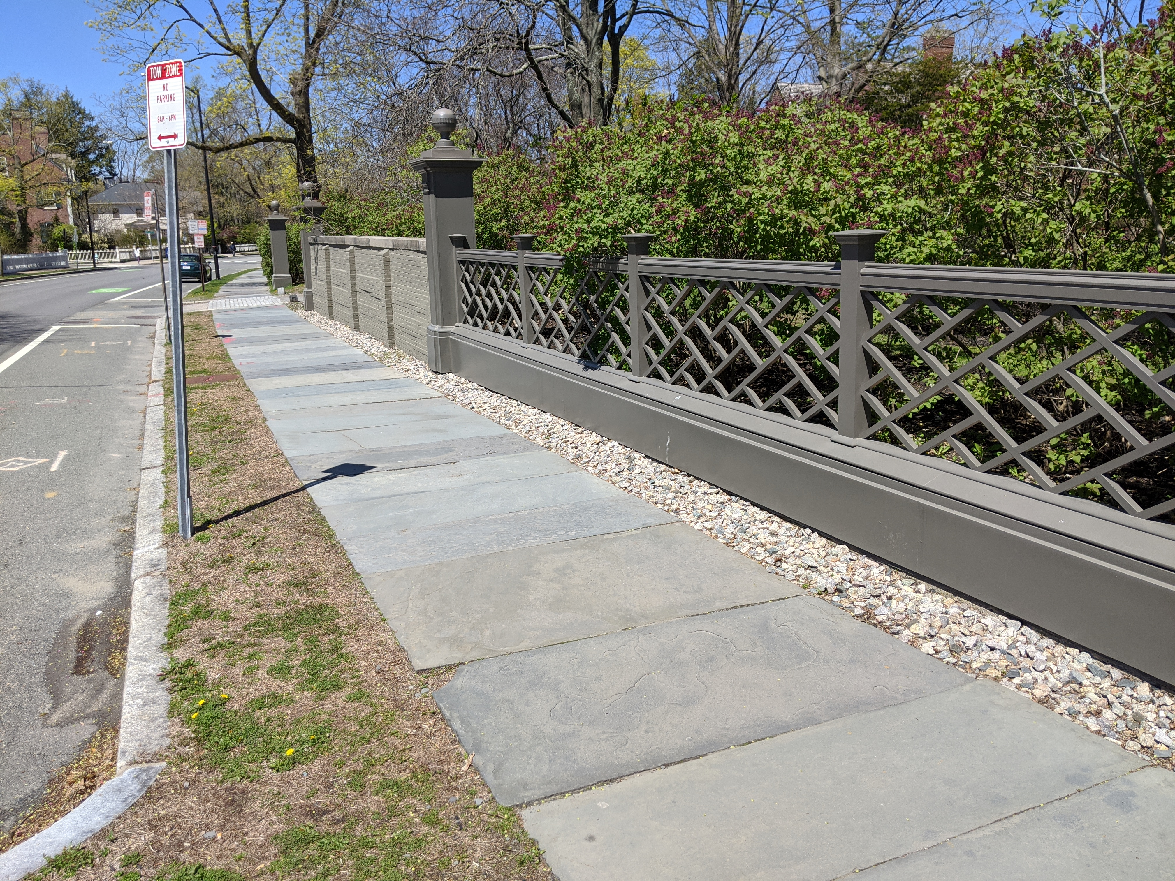 Stone slab sidewalk in front of the Longfellow House–Washington's Headquarters National Historic Site, 105 Brattle St., Cambridge, Mass.